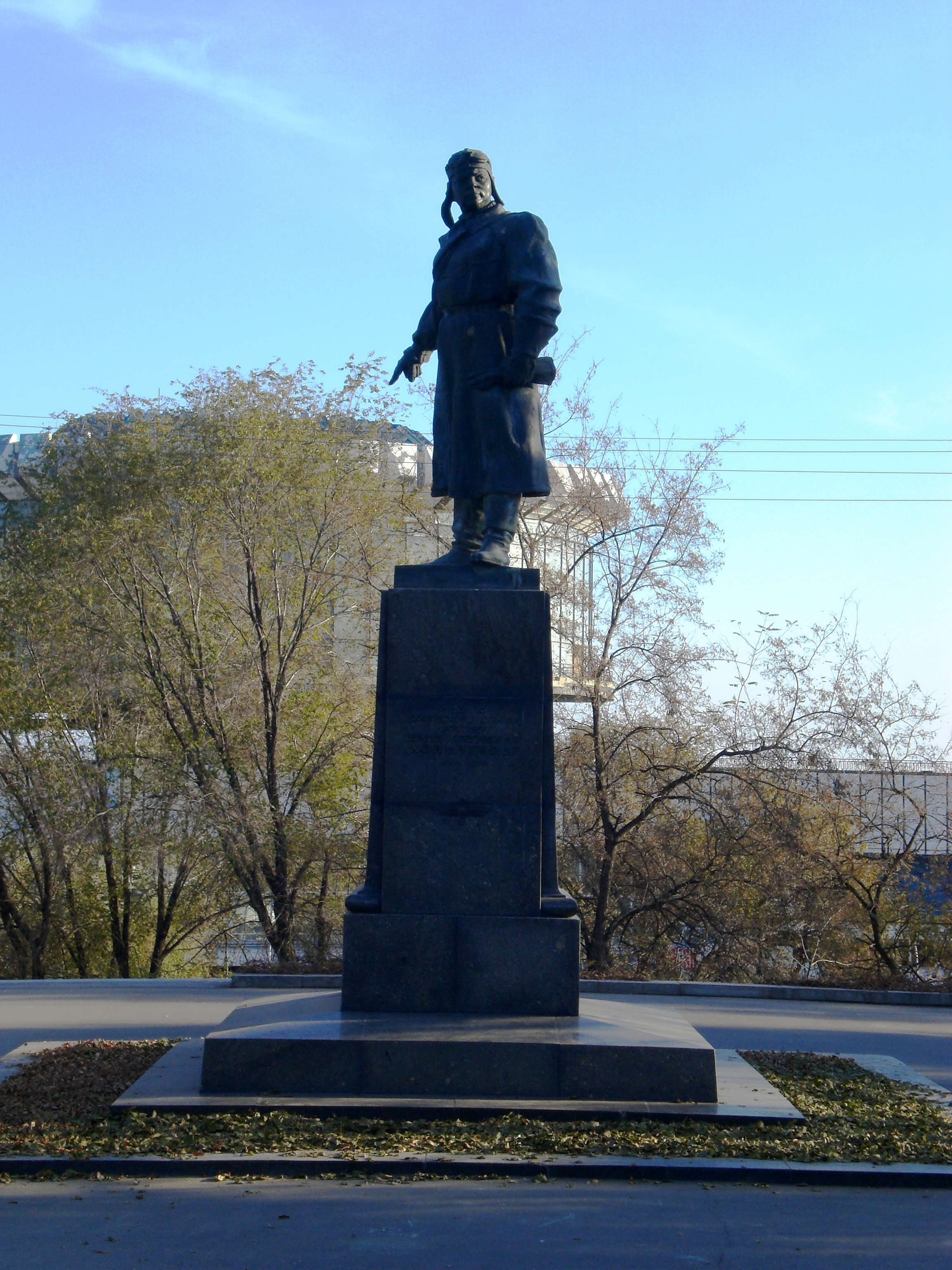 Monument to Hero of the Soviet Union, сomdiv Viсtor Holzunov (January, 31st 1905, Tsaritsyn — July, 27th 1939), to the Soviet pilot. Placed in Volgograd (Russia).